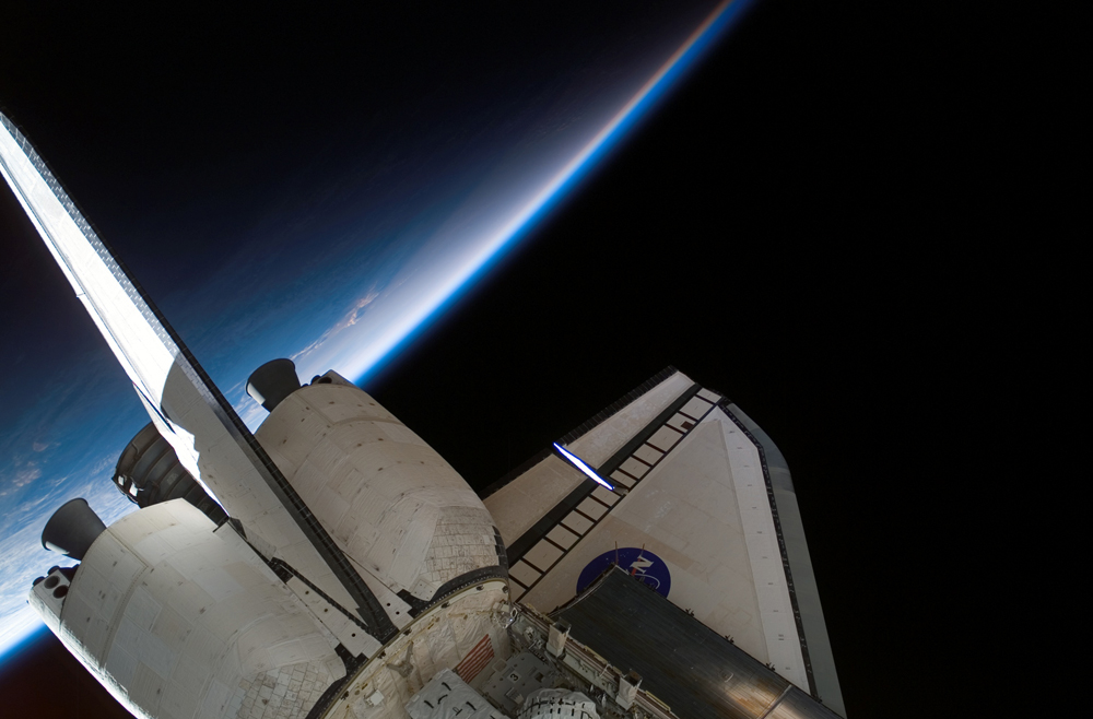 Backdropped by the blackness of space and Earth's horizon, Space Shuttle Endeavour's orbital maneuvering system (OMS) pods and vertical stabilizer are featured in this image photographed by a crewmember while docked with the International Space Station during STS-118 flight day six activities. US NASA.